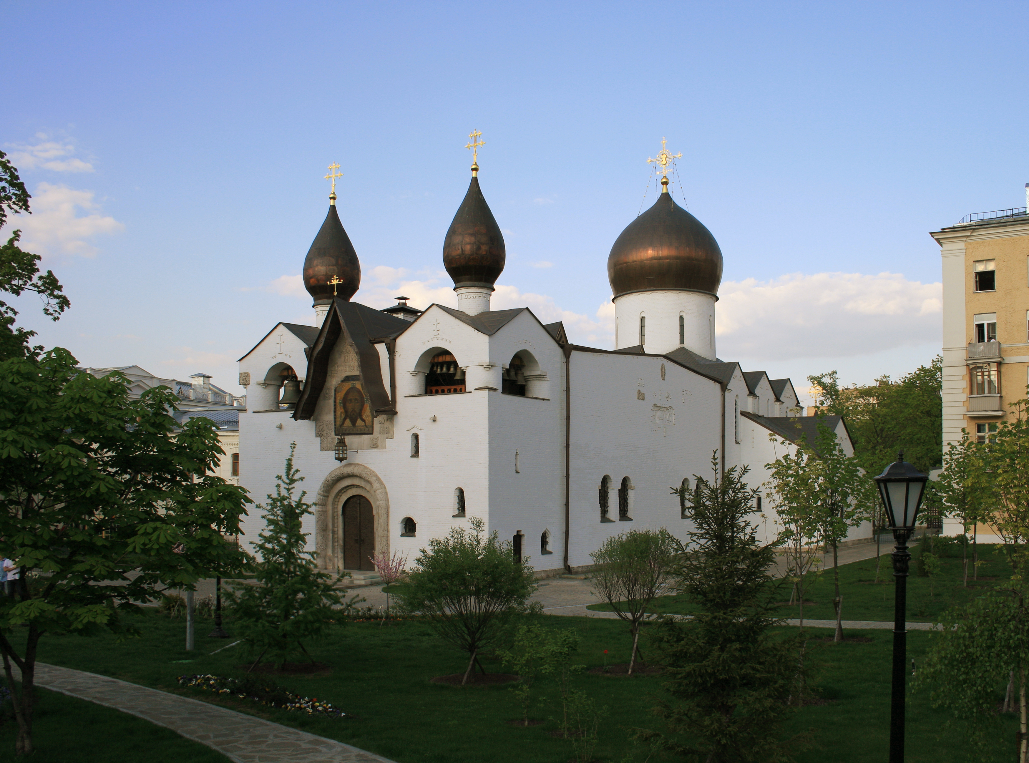 Holy Protection Cathedral, Marfo-Mariinsky Convent, Moscow, Russia, by Alexey Shchusev